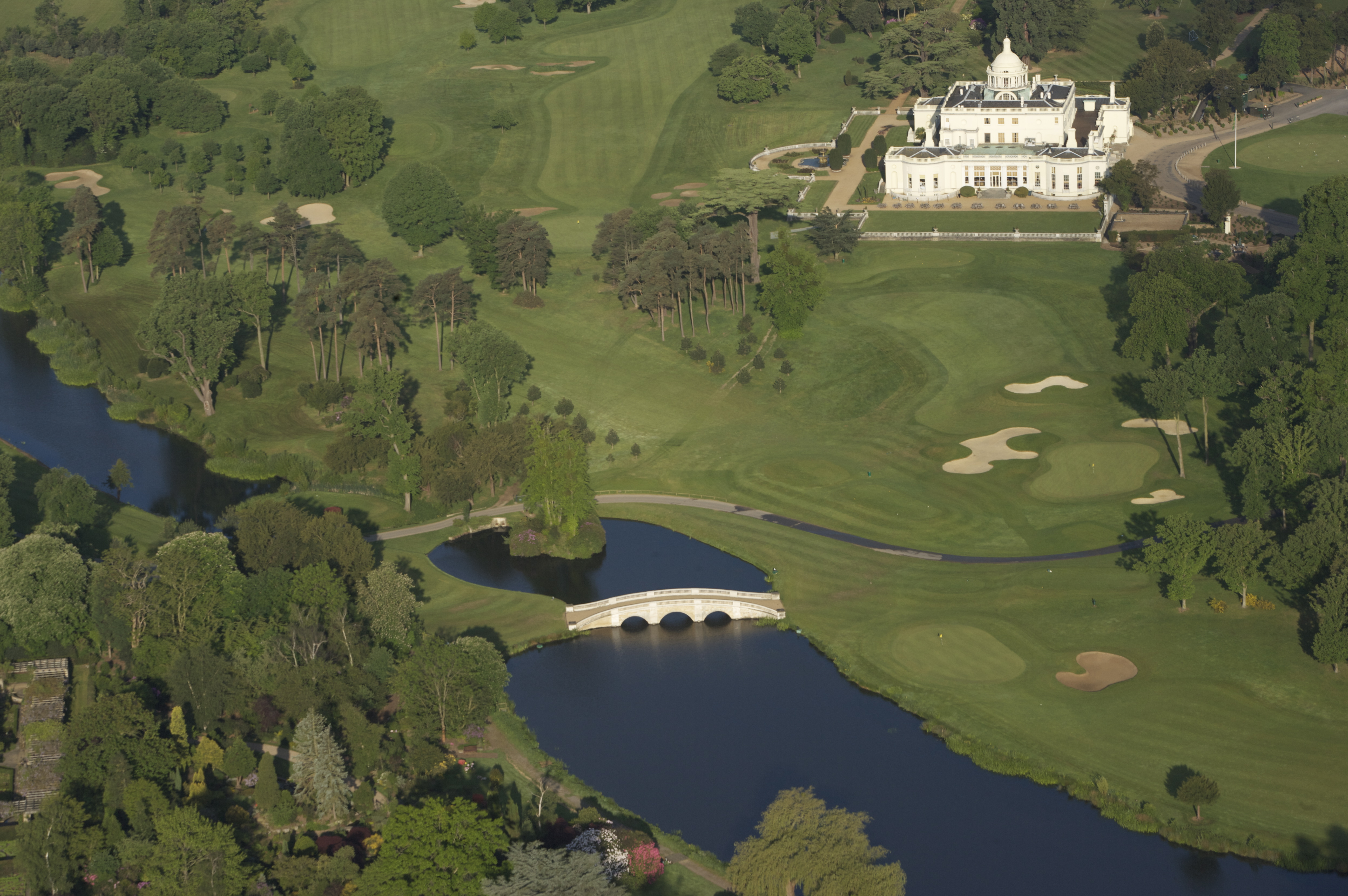 Aerial view of the mansion - Stoke Park, Buckinghamshire